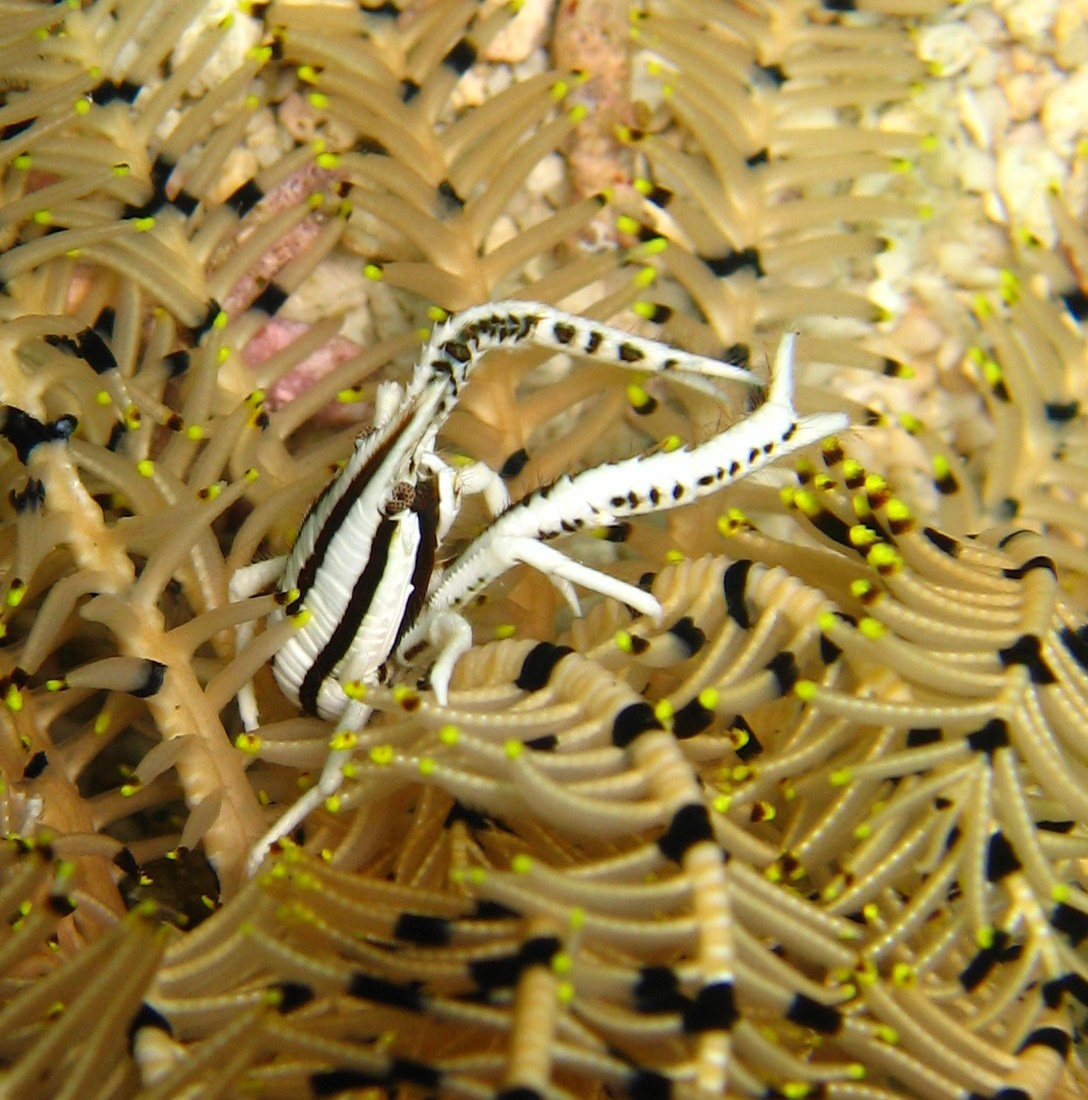 Squat Lobster / Allogalathea elegans